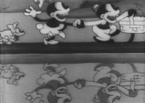 screenshot from public domain 1931 animated feature Bosko's Holiday